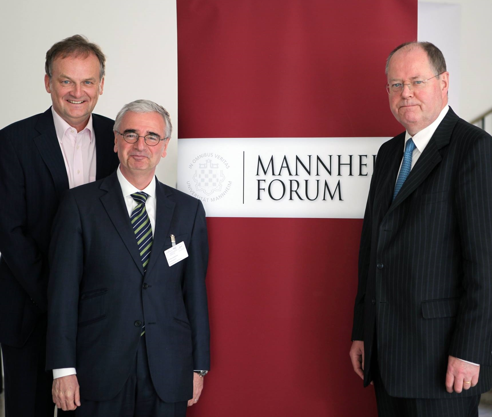 Mannheim Forum 2014: The picture shows the three speakers on March, 14 2014 (from left to right): Franck Plasberg, Paul Achleitner, Peer Steinbrueck